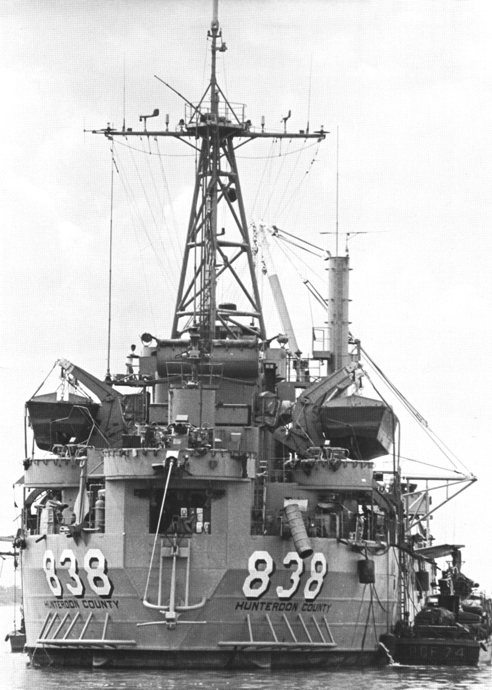 USS Hunterdon County (AGP-838), anchored in the middle of the Mekong River about 10 km inside Cambodia, replenishing Vietnamese and American armed forces operating there.